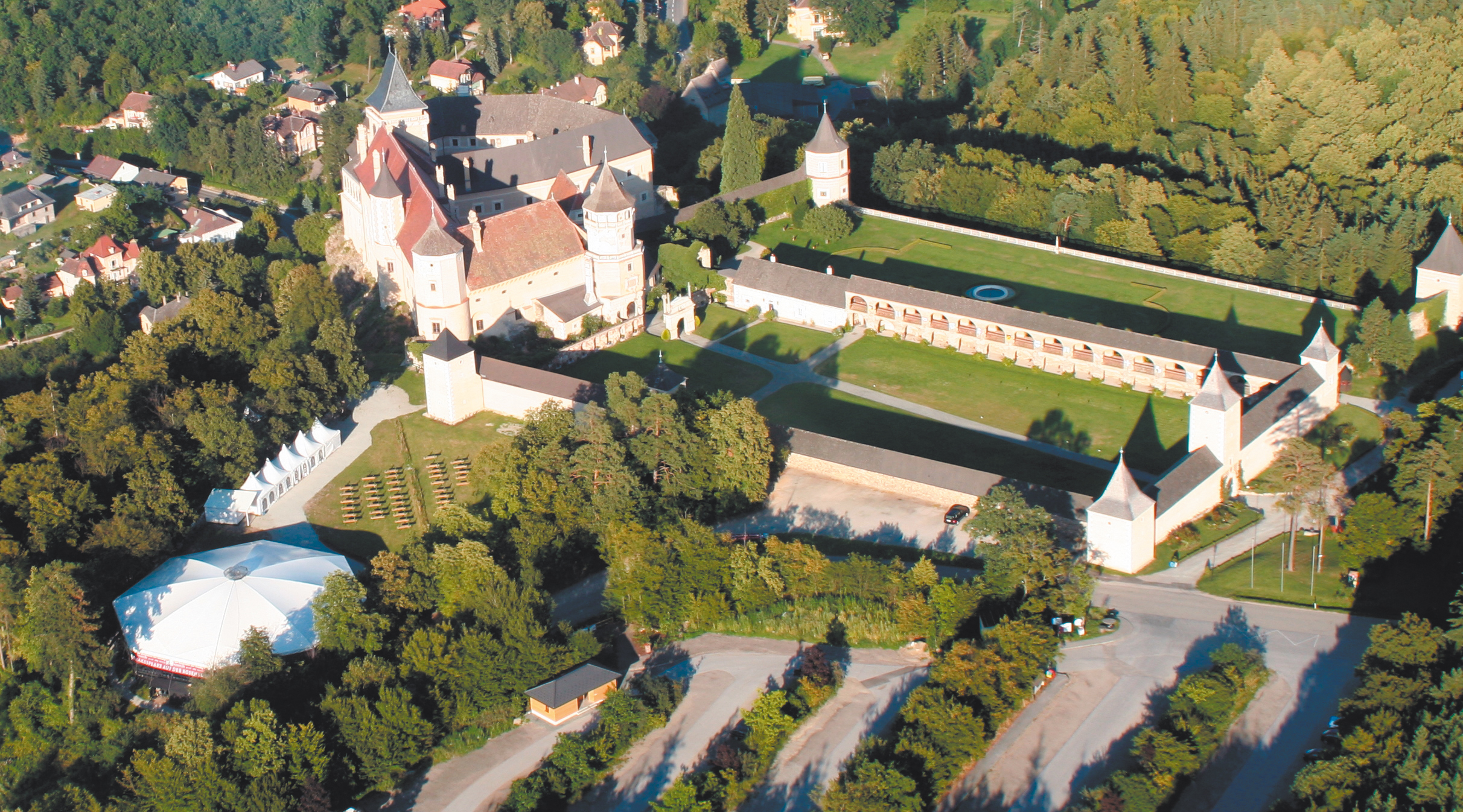 Summer theatre - Shakespeare auf der Rosenburg